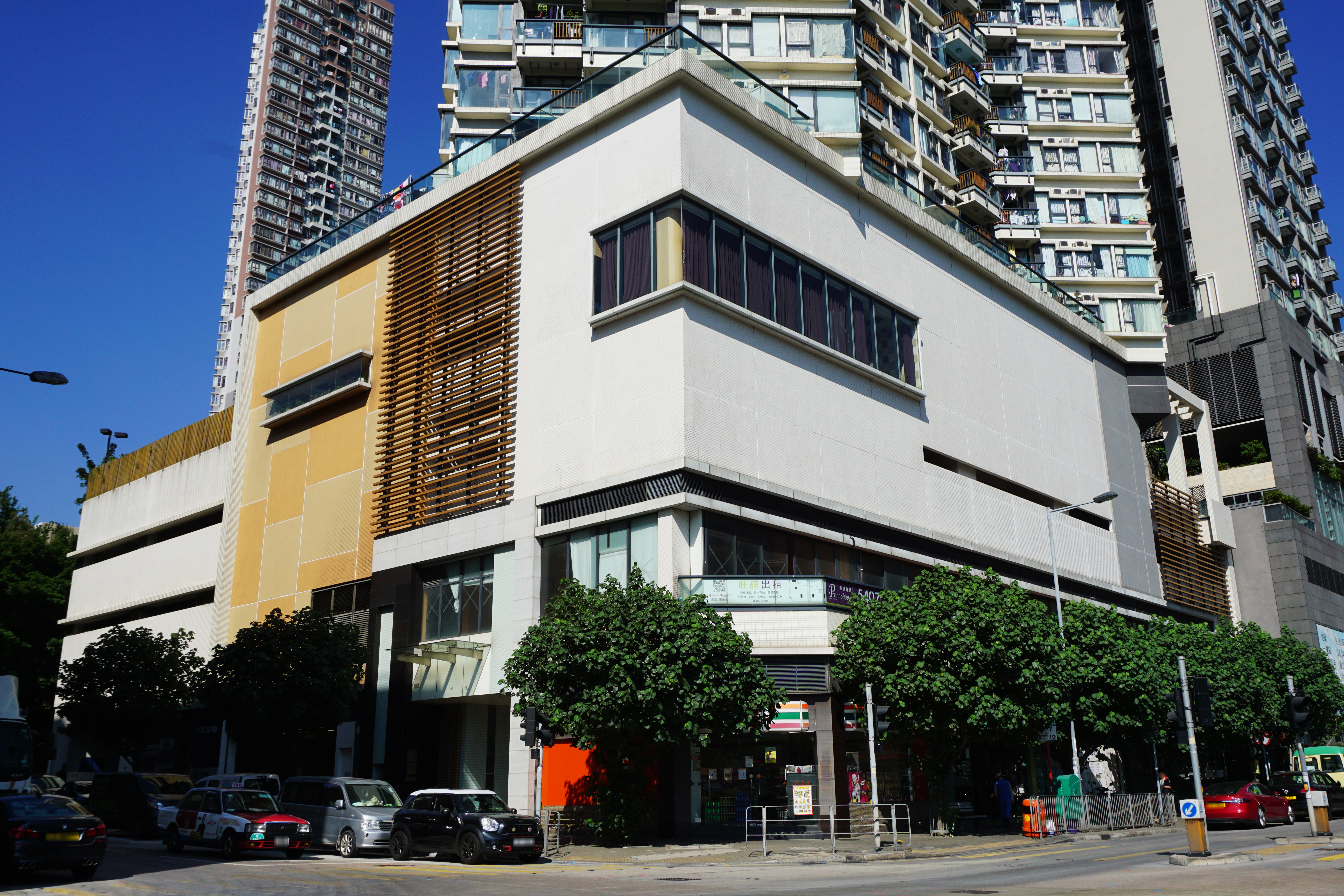 Canaryside in Yau Tong, Hong Kong.